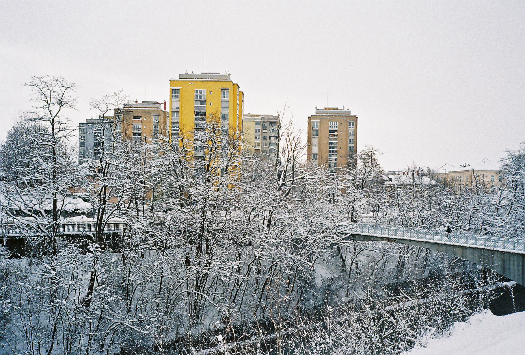 Ljubljanica at winter with trees